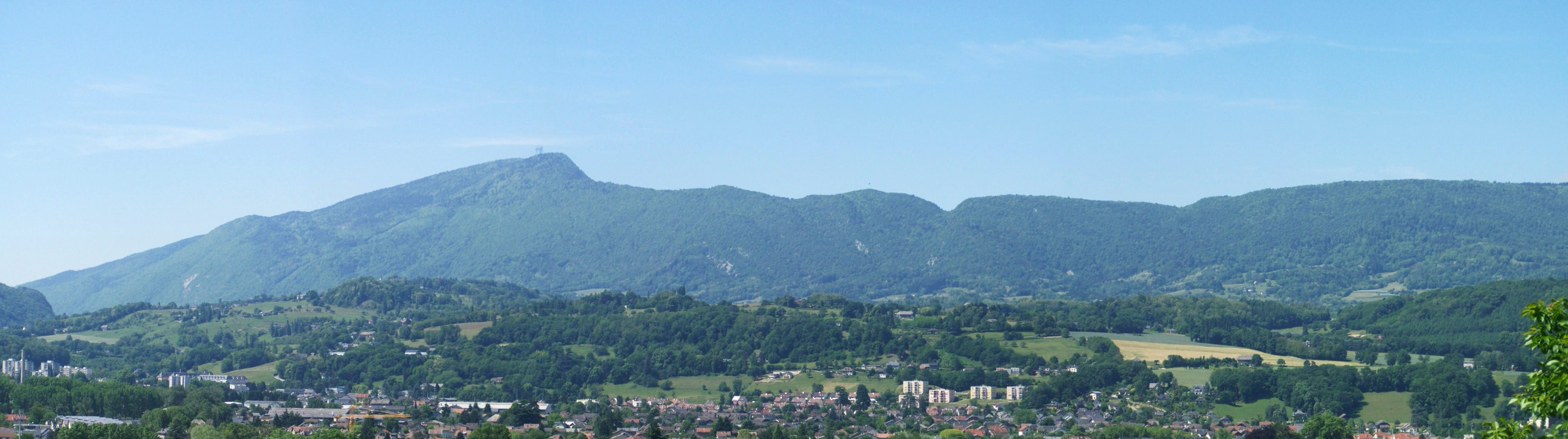 Landscape view of chaîne de l'Épine mountain, seen from Chambéry in Savoie, France.